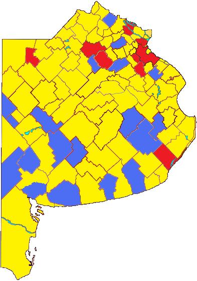 Buenos Aires Province parlamentary election 2009.